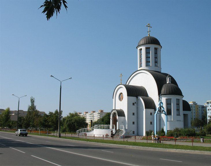 Orthodox Church by Ul. Zaslonova in the center of Soligorsk (Salihorsk) city, in Minsk province, Belarus. The administrative building of the region/city can be seen on the left.